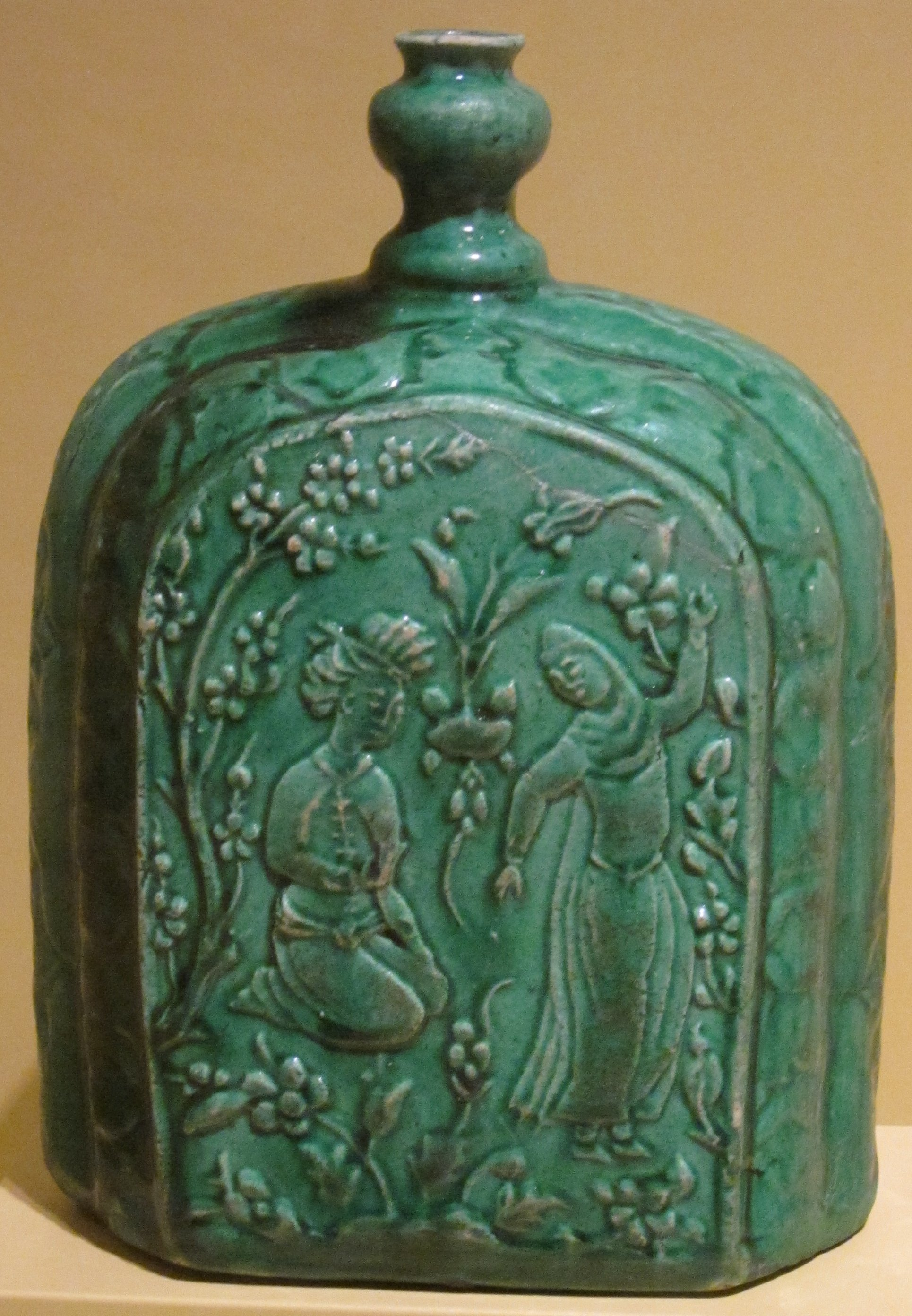 Bottle from Iran, 17th century, glazed stone-paste, Doris Duke Foundation for Islamic Art accession 48.36